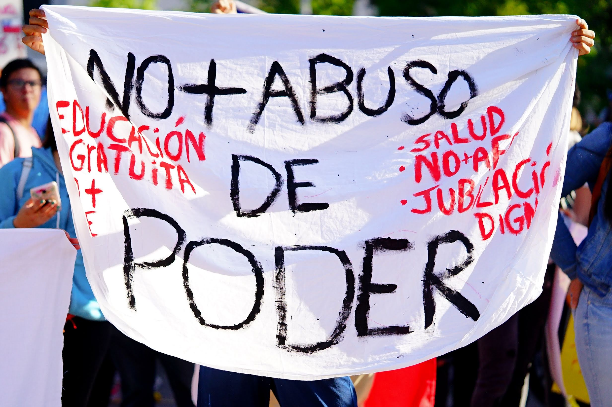 Sunday, october 20th - More than 20 thousand people gathered at the Plaza de Los Heroes (Heroes Square) at the very center of the city of Rancagua to peacefully demonstrate their will for a deep change of the state politics. This was the first masive march in more than 30 years.